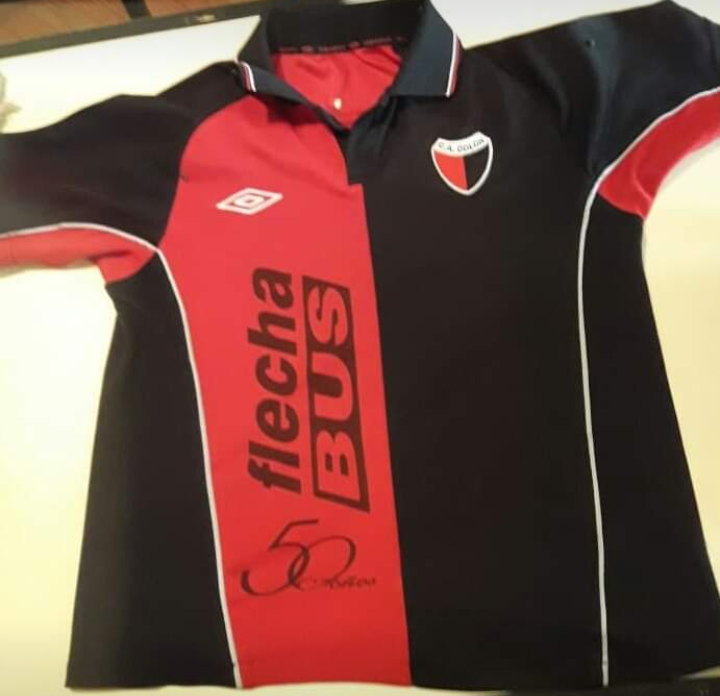 T-shirt holder of Colón 2010-11